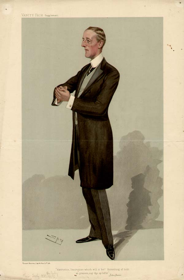 Caricature of John Seely, 1st Baron Mottistone. Caption reads: "Extinction, Distinction - which will it be? Something of both at present, say the spiteful".